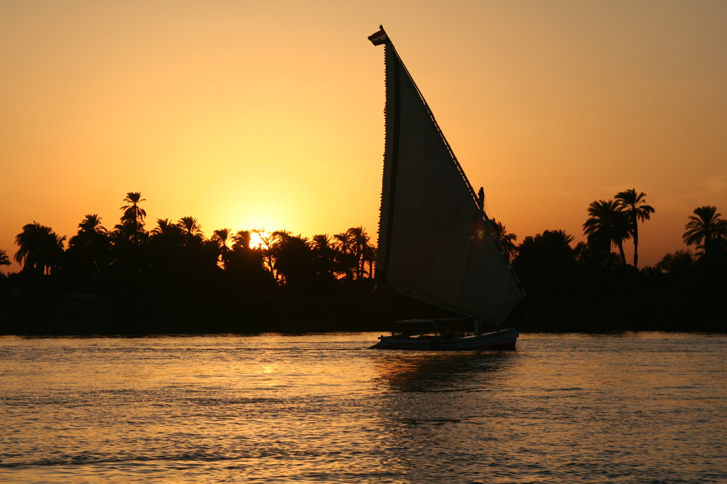 Sunset over the Nile at Luxor, Egypt